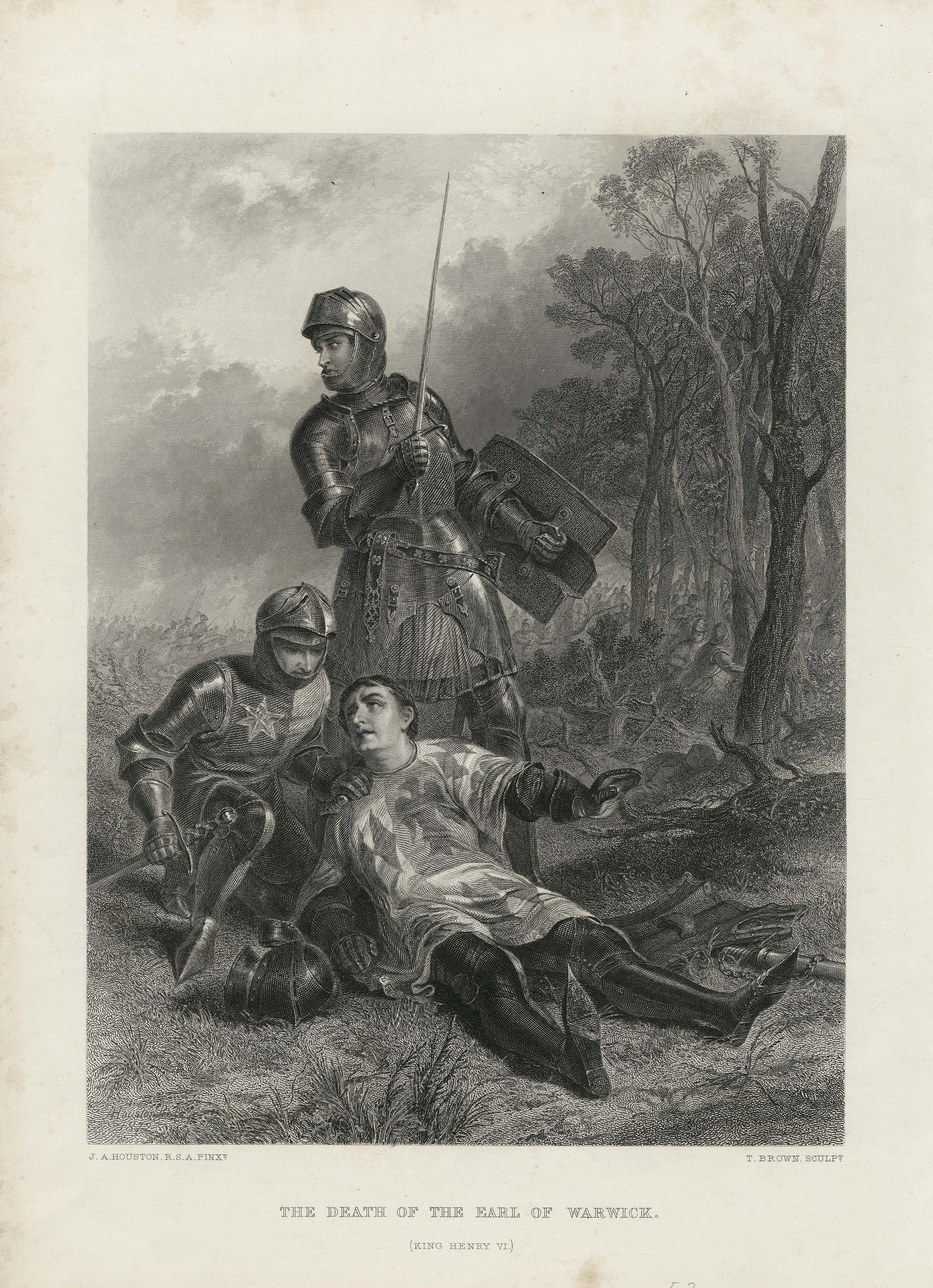 Portrayal of Shakespeare's version (Act V, Scene ii, of Henry VI, Part 3) of the Earl of Warwick's death at the Battle of Barnet in 1471: this engraving was published in: Shakespeare, William; Knight, Charles (editor), 1872, Imperial Edition of the Works of Shakespeare. Virtue and Company.[1][2]